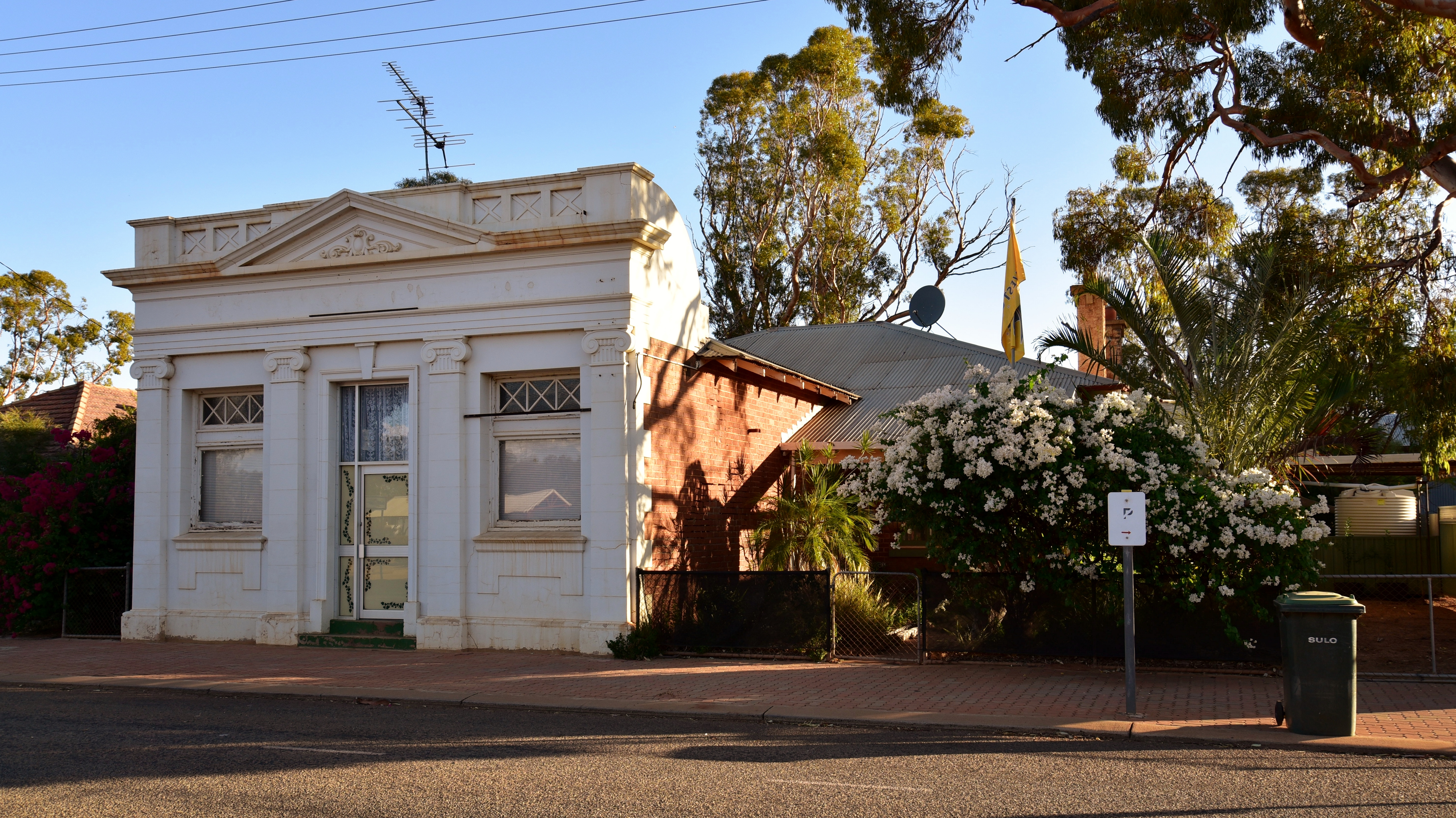 View of the former Former E, S & A Bank, Railway Road, Three Springs, Western Australia